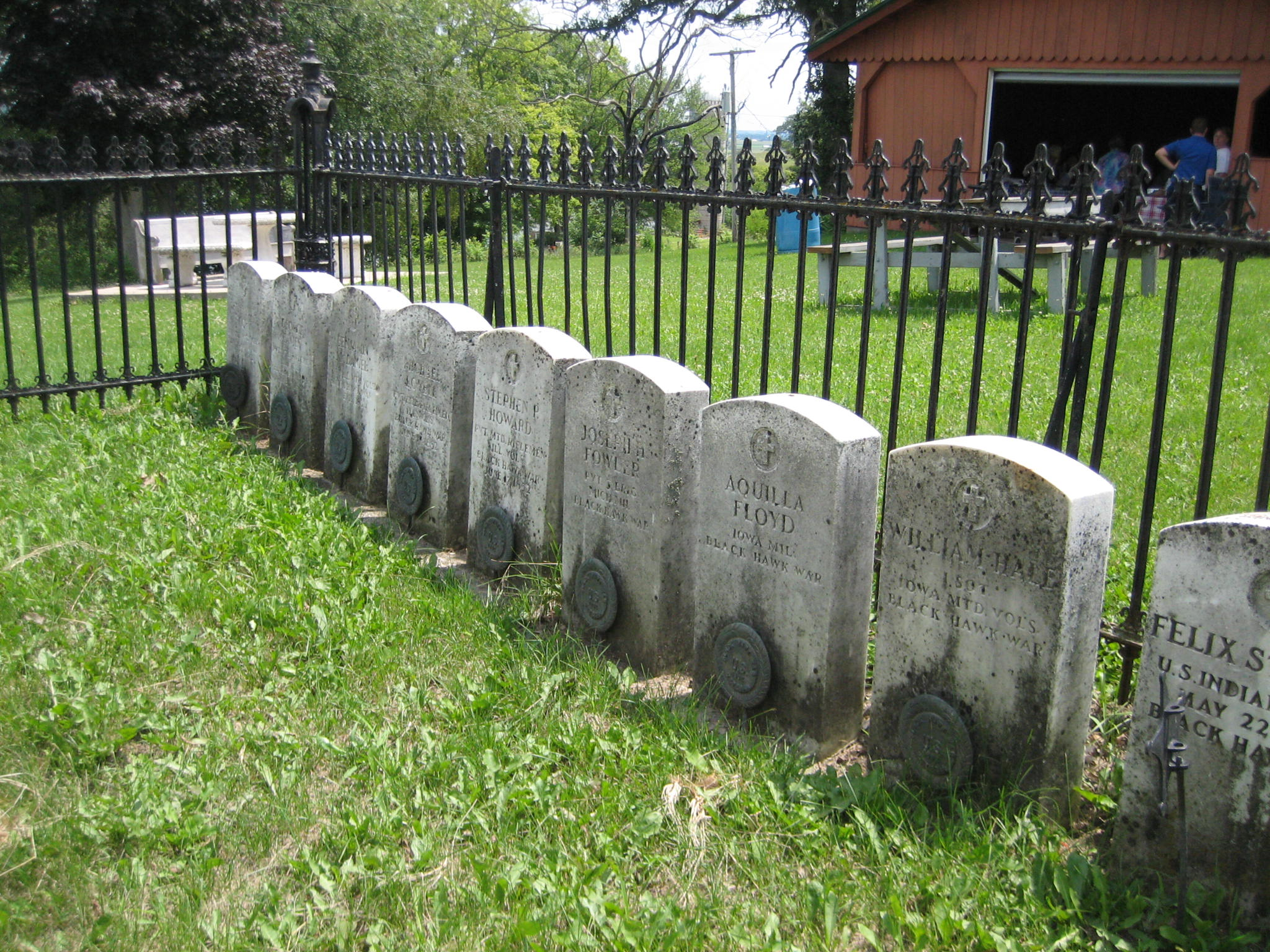 Kellogg's Grove, near Kent, Illinois, USA. Site of the Battle of Kellogg's Grove during the Black Hawk War. Site includes 56 acres and a monument and graves of those in the militia that died. U.S. National Register of Historic Places.